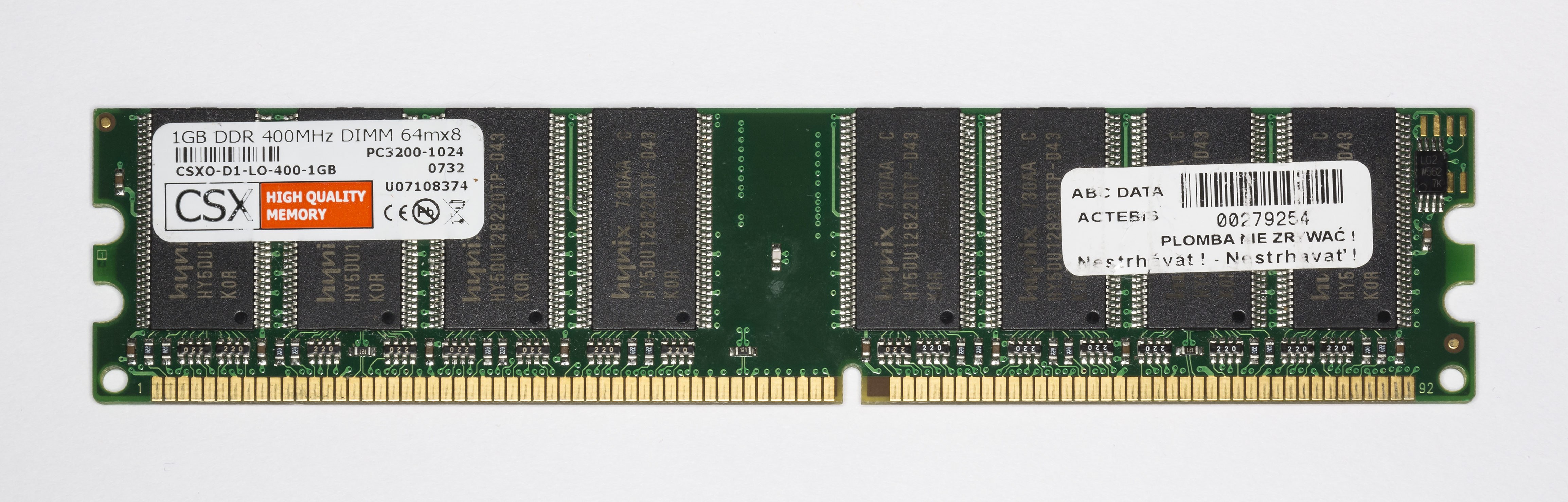 Memory module DDR 1GB Hynix